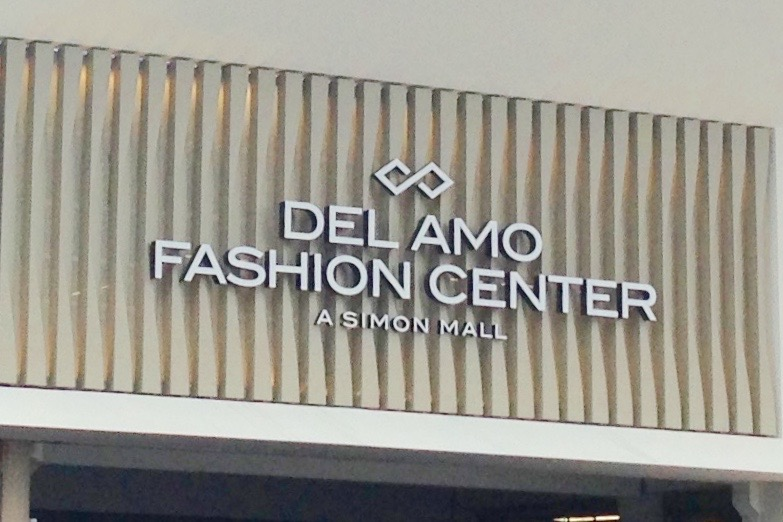 Del Amo Fashion Center sign, overlooking Carson Street